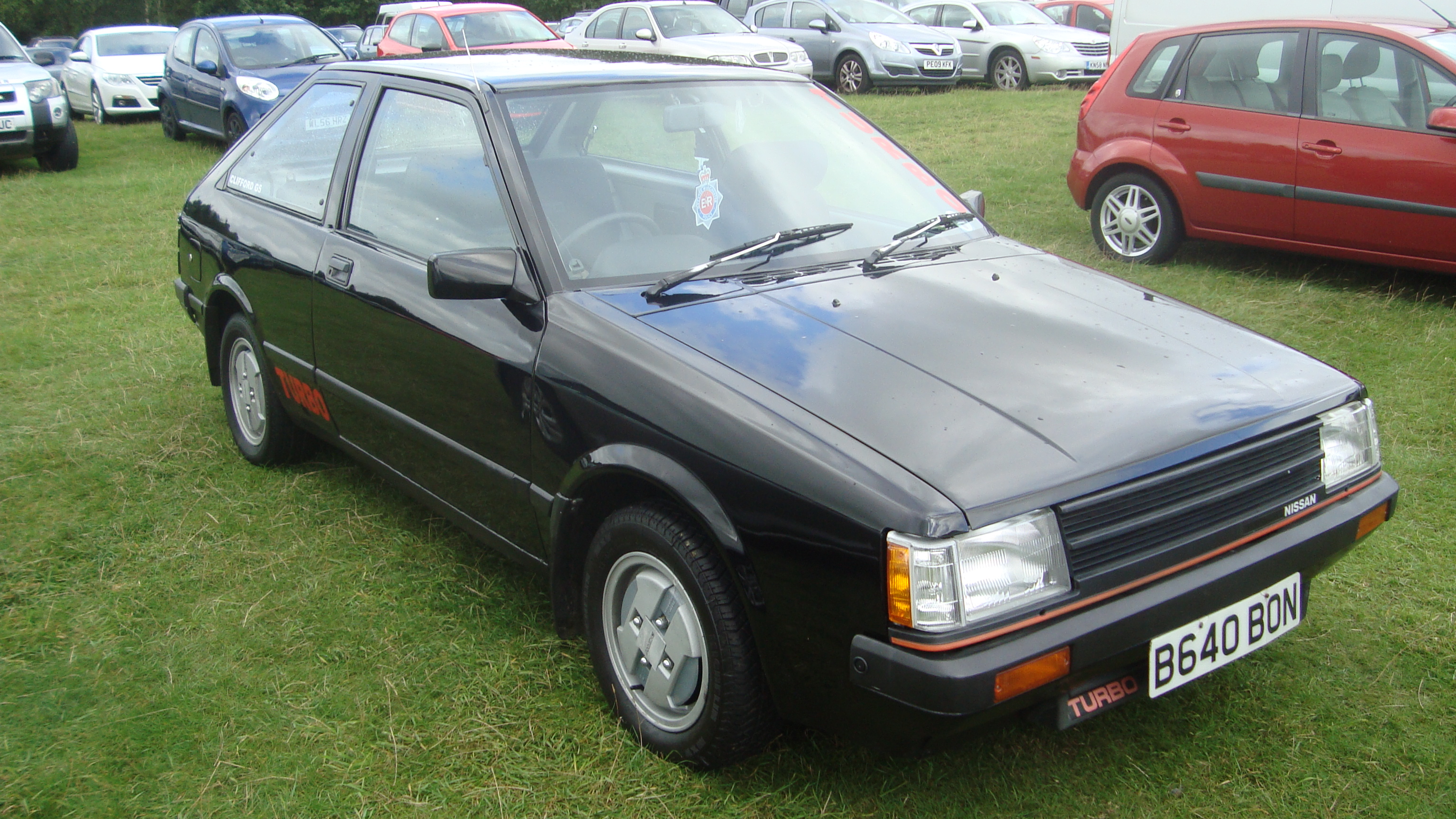 Nice to see this driving again, when I first spotted it in March it had no tax and a smashed headlight and bumper so I thought its days could be numbered